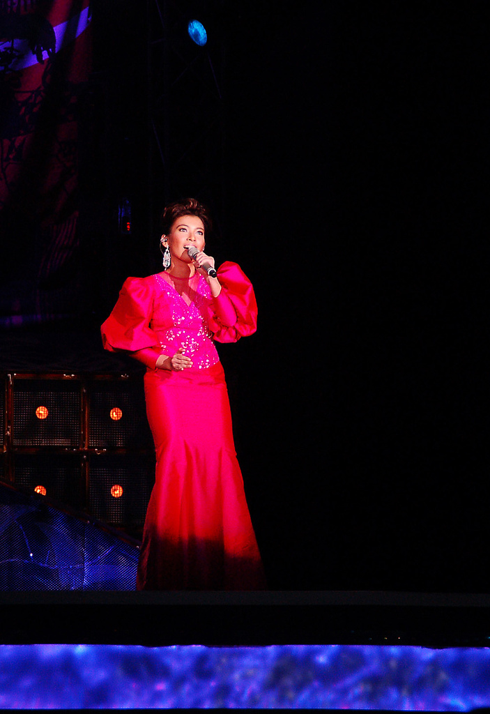 Misha Omar at Konsert Tribute Sudirman.